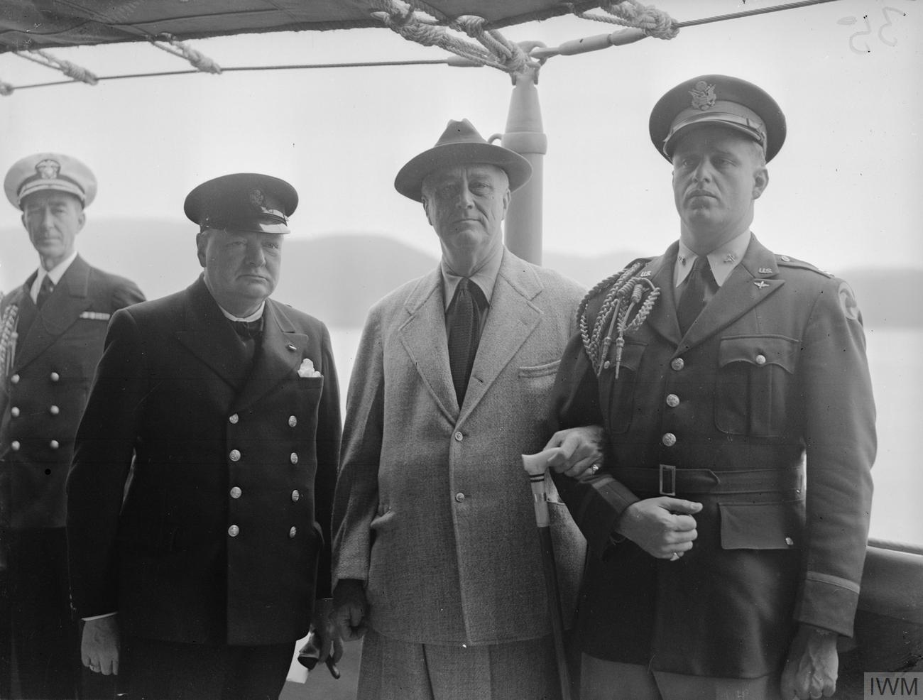 Atlantic Conference Between Prime Minister Winston Churchill and President Franklin D Roosevelt 10 August 1941 Prime Minister Winston Churchill and President Franklin D Roosevelt standing aboard HMS Prince of Wales. Supporting Franklin Roosevelt on his left side is his son, Captain Elliot Roosevelt USAAF. A presidential aide stands nearby.